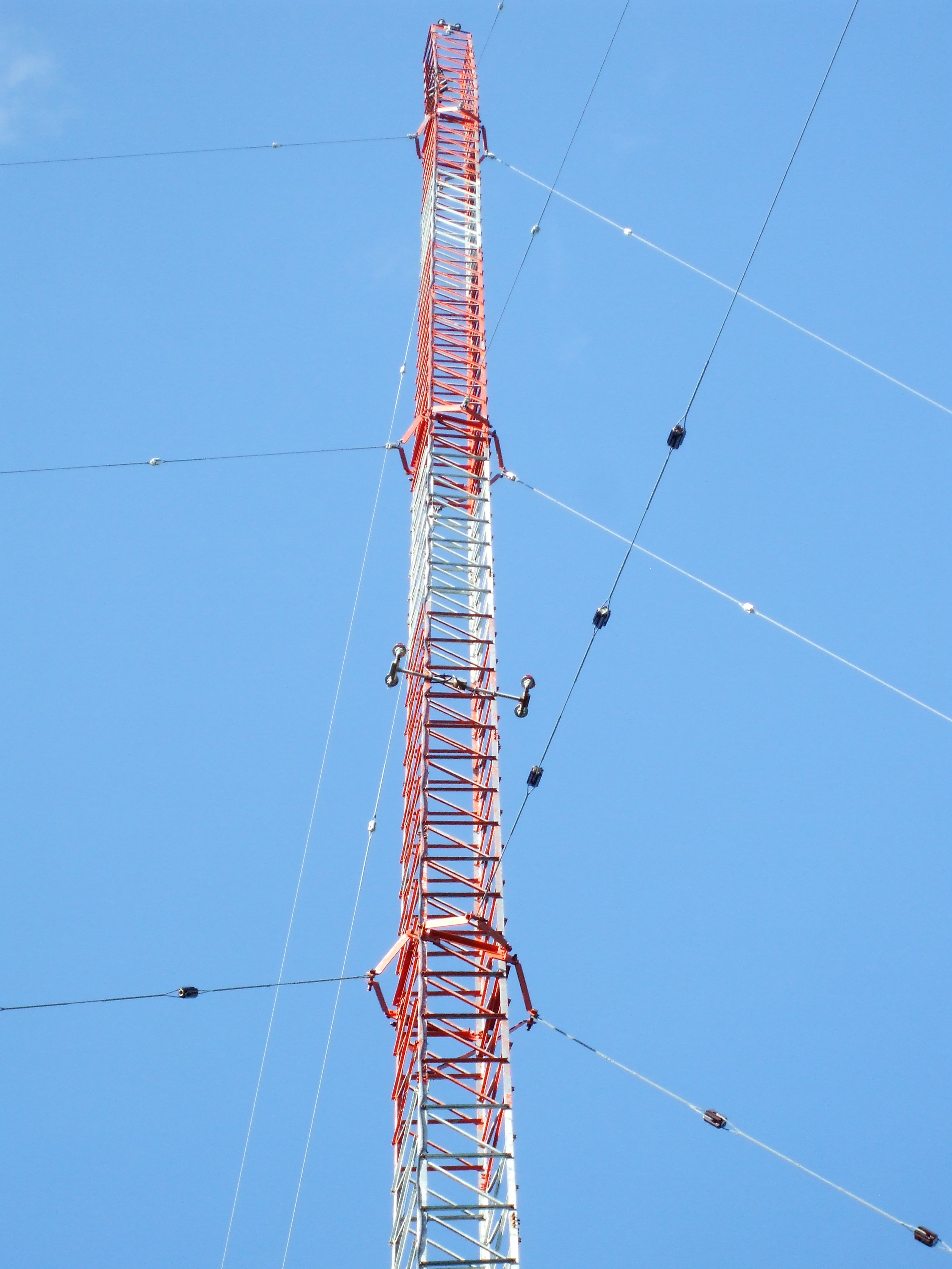 Mast radiator tower for CFCB radio in Corner Brook, Newfoundland, Canada